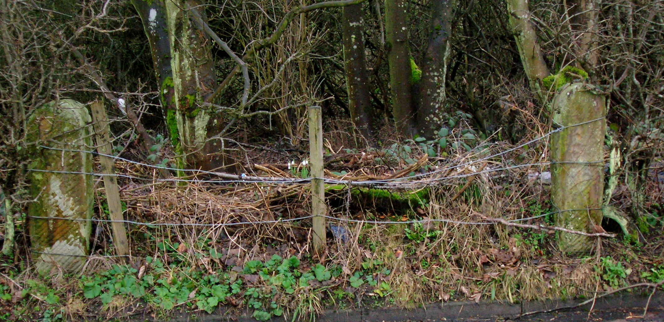 Gateposts at the site of Lochwards, Lochmills site, Irvine, North Ayrshire, Scotland.